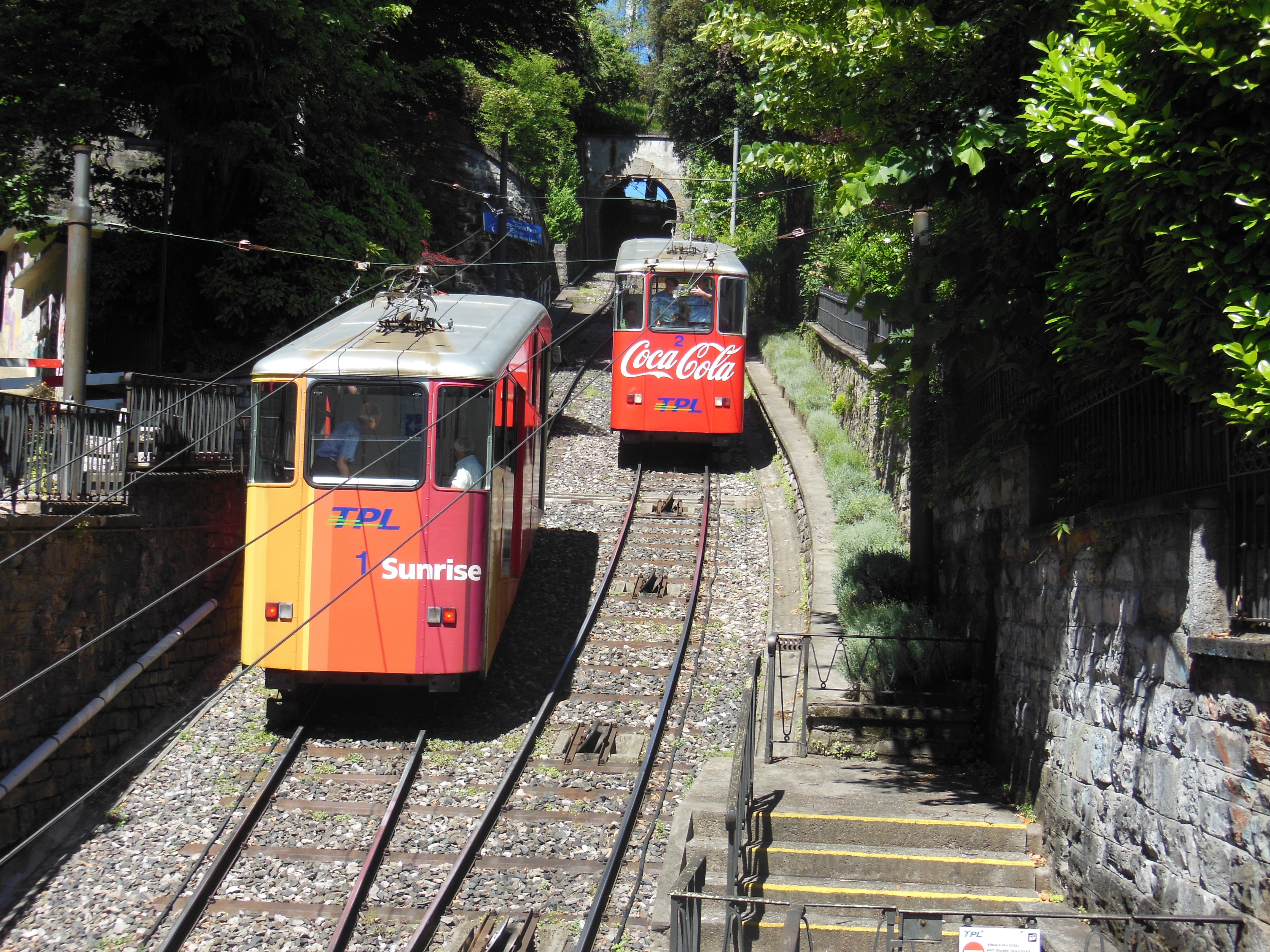 Both cars of the Lugano Città–Stazione funicular at the passing loop. For more information, see the Wikipedia article Lugano Città–Stazione funicular.